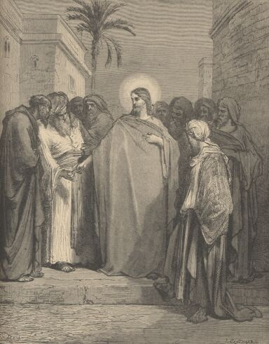 Dispute of Jesus and the Pharisees over tribute money